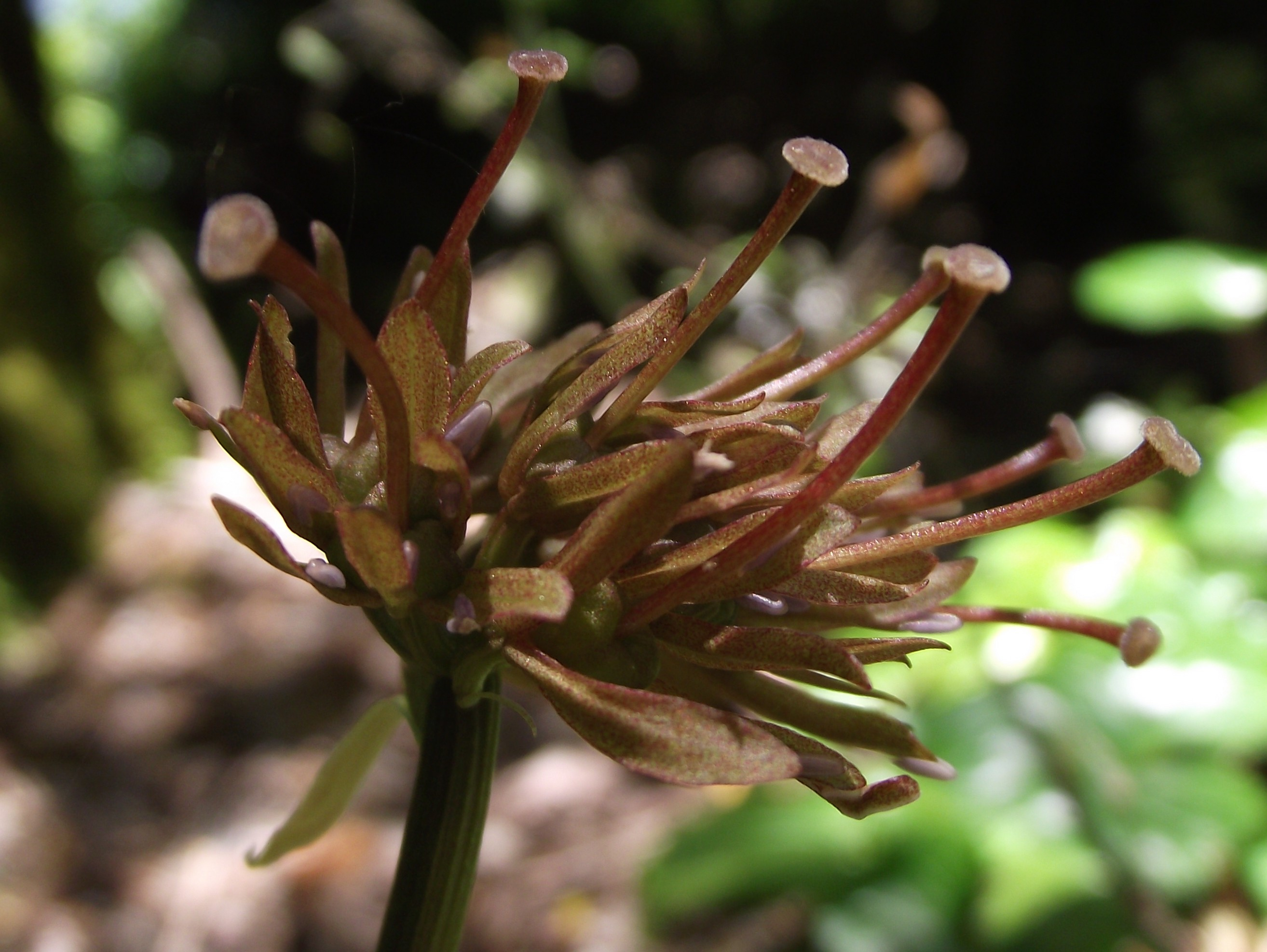 Heloniopsis acutifolia at the UC Botanical Garden, Berkeley, California, USA. Identified by sign.